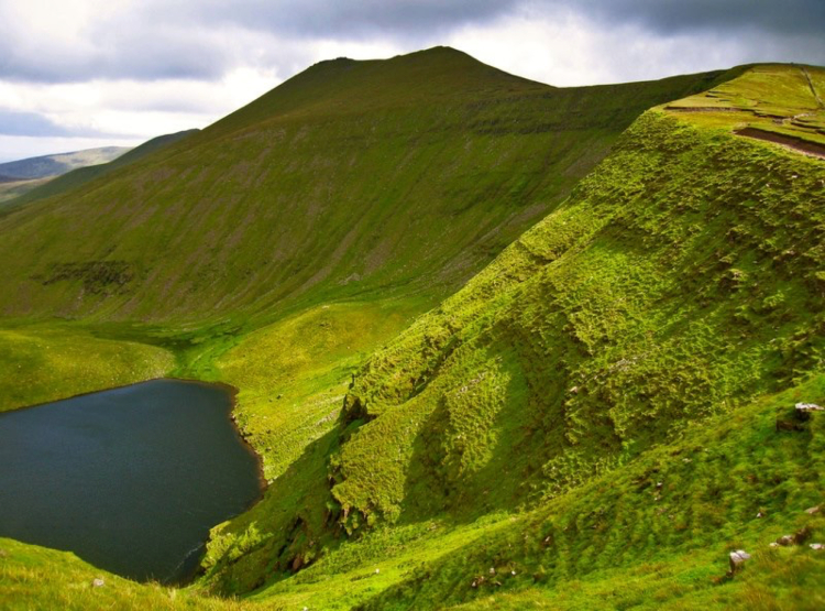 Photo of Lough Curra below Galtymore summit in the Galty Mountains, Limerick / Tipperary.